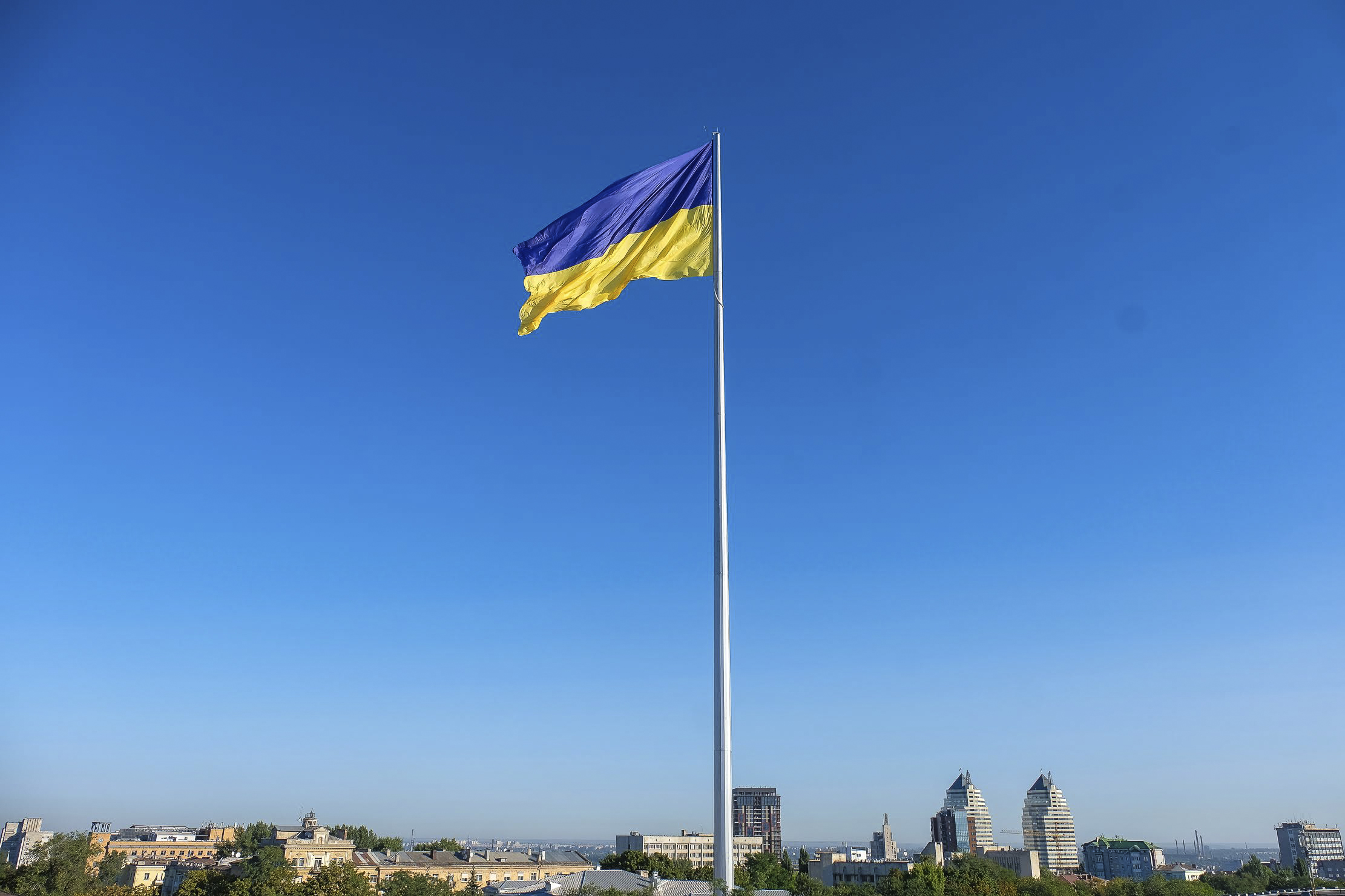 The highest flagpole with the State Flag of Ukraine. Dnipro, August 23, 2018